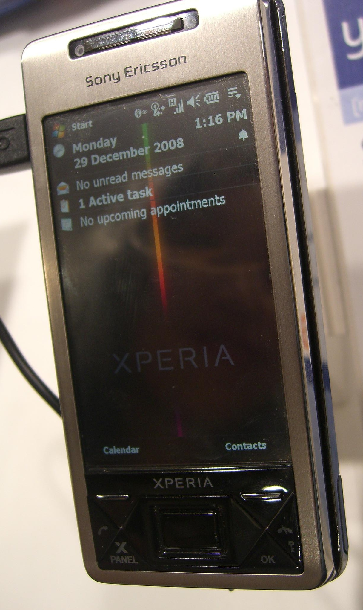 Sony Ericsson Xperia X1 on sale in Telstra T-Life Chadstone.